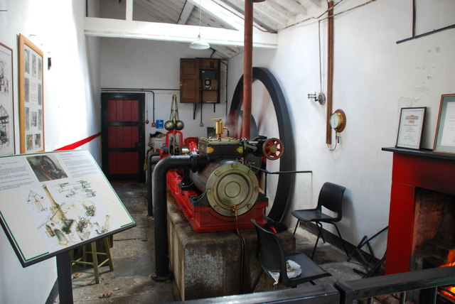 Glynllifon Steam Engine In the extensive estate workshops the steam engine has been restored and regularly operates.